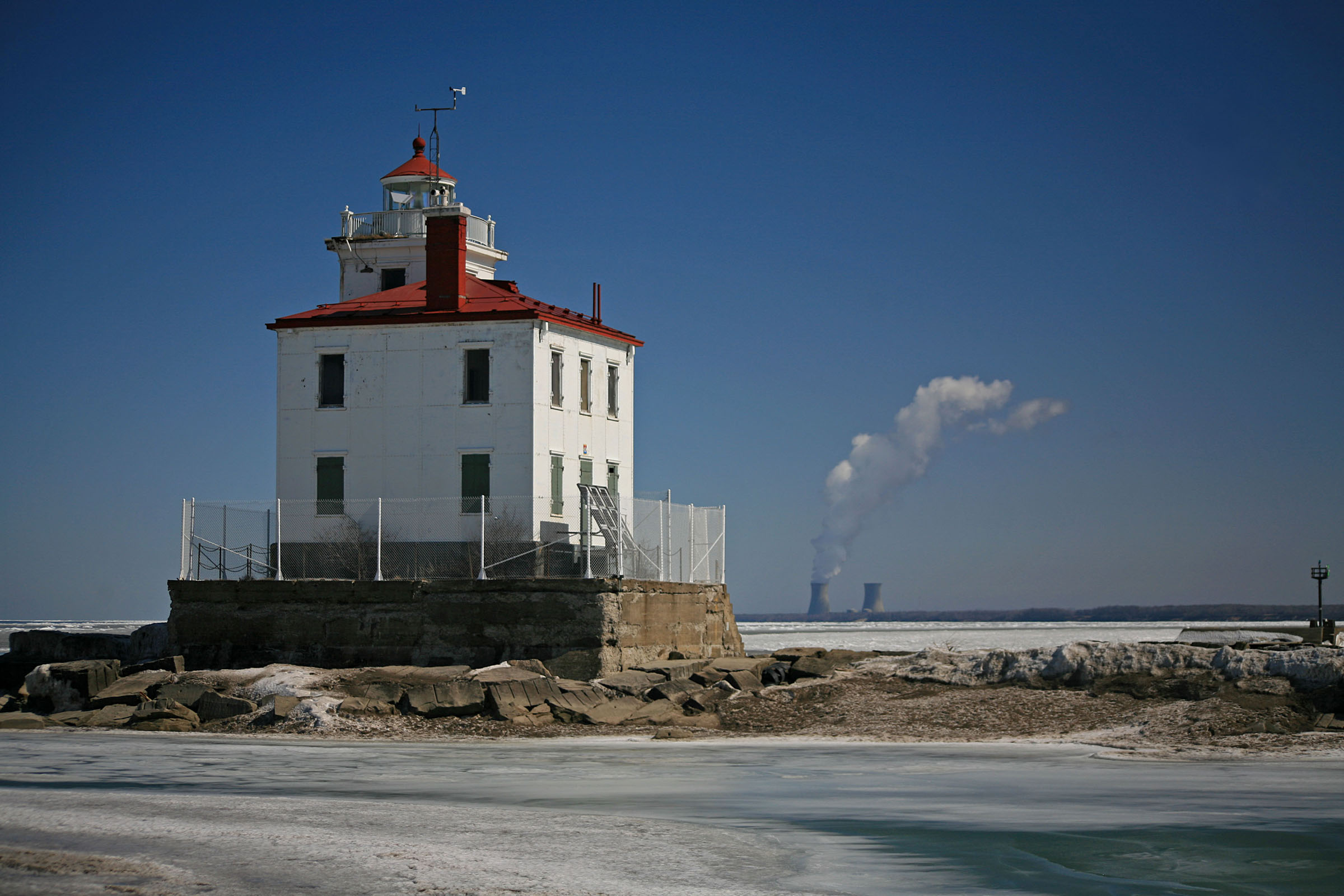 The historic lighthouse that guards Fairport Harbor, with the Perry Nuclear Power Plant in the distance.